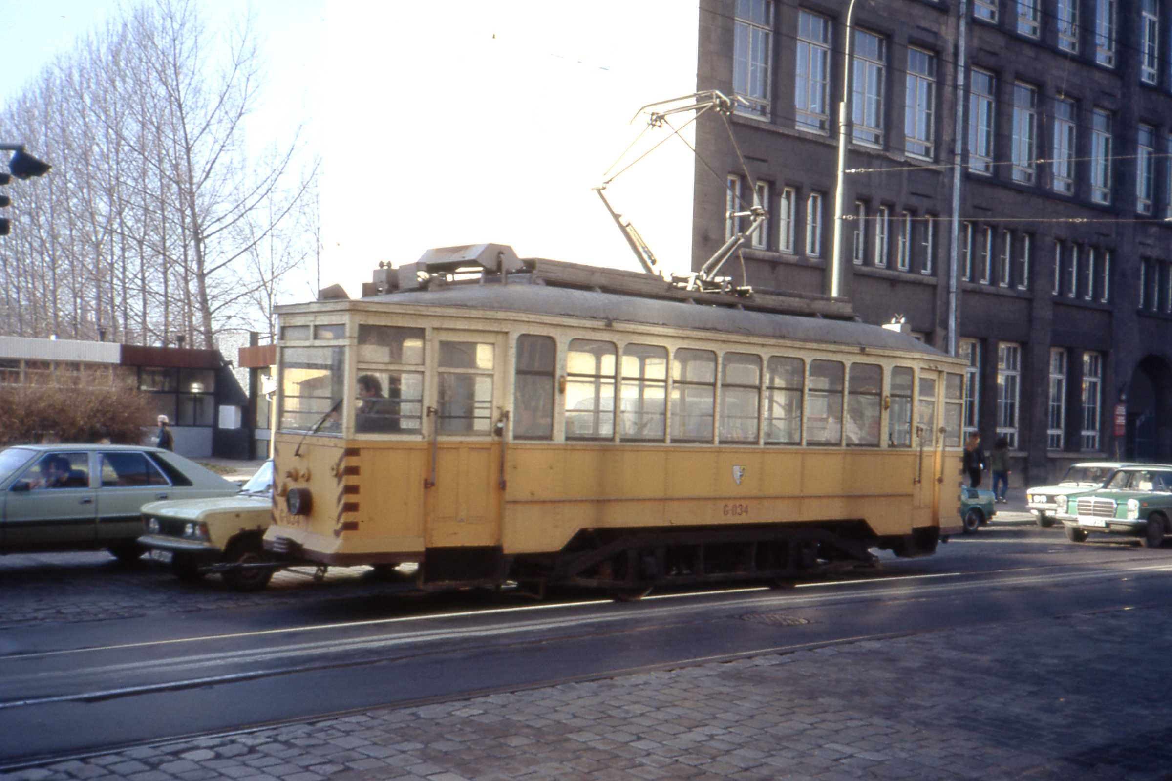 Formerly no. 1190, one of 50 standard LH trams delivered to Breslau in 1929, nos. 1183-1232, manufactured by Linke-Hofmann-Werke of Lauchhammer. (later in the GDR)